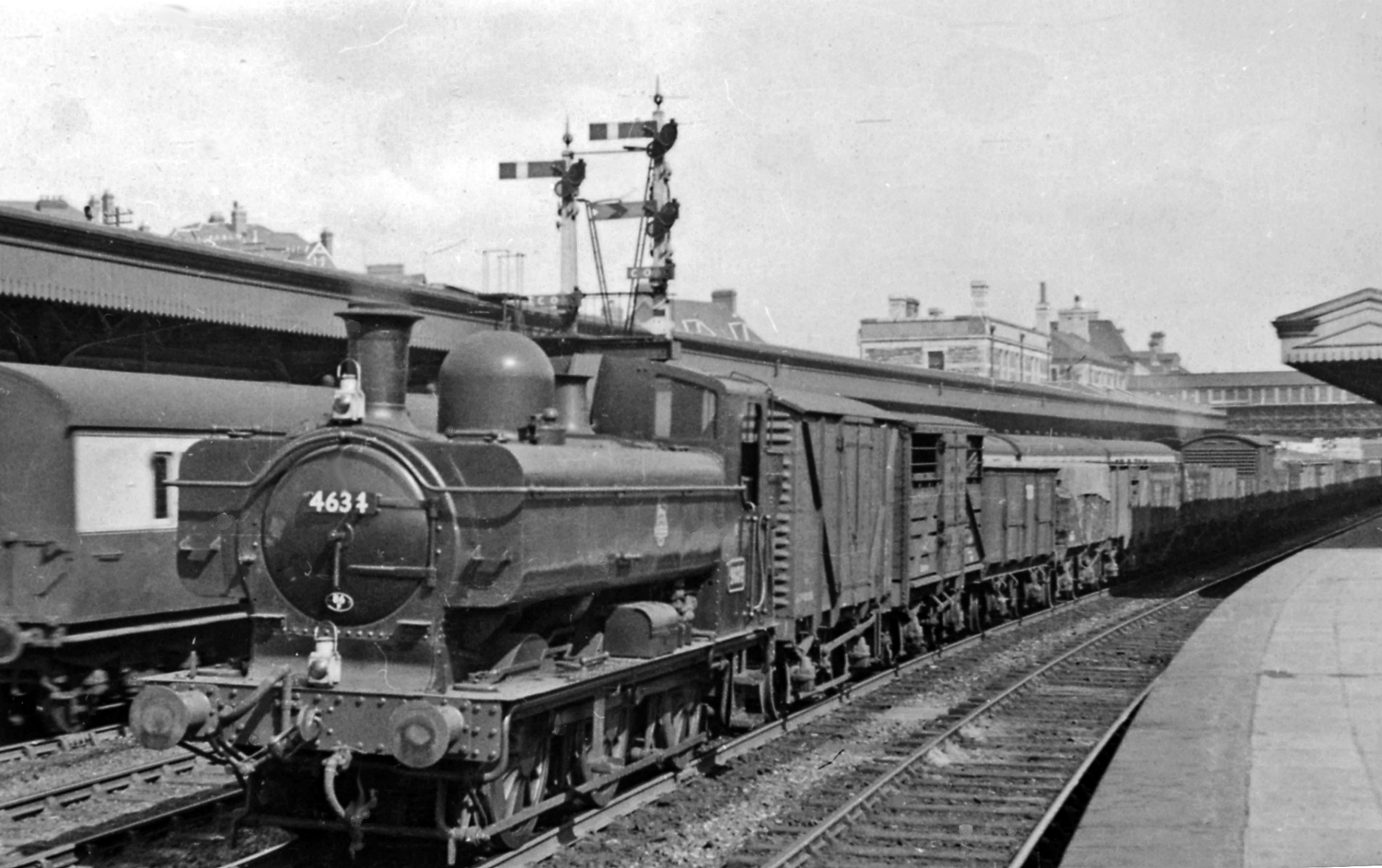 A smart '8750' class 0-6-0PT passing through Newport High Street Station. View NE, towards the Usk Bridge and all points north, east and south: ex-GW South Wales main line, etc. The lines and platforms are as they were before the radical alteration of 1961. The locomotive, No. 4634 (built 11/42) on the Class H freight is allocated to Tondu and is probably on its way back from overhaul at Swindon.